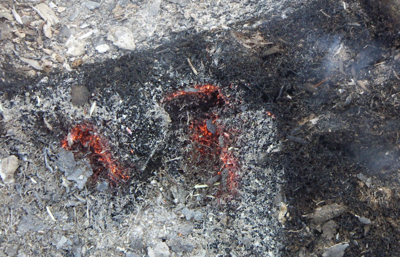 Smouldering of garden litter